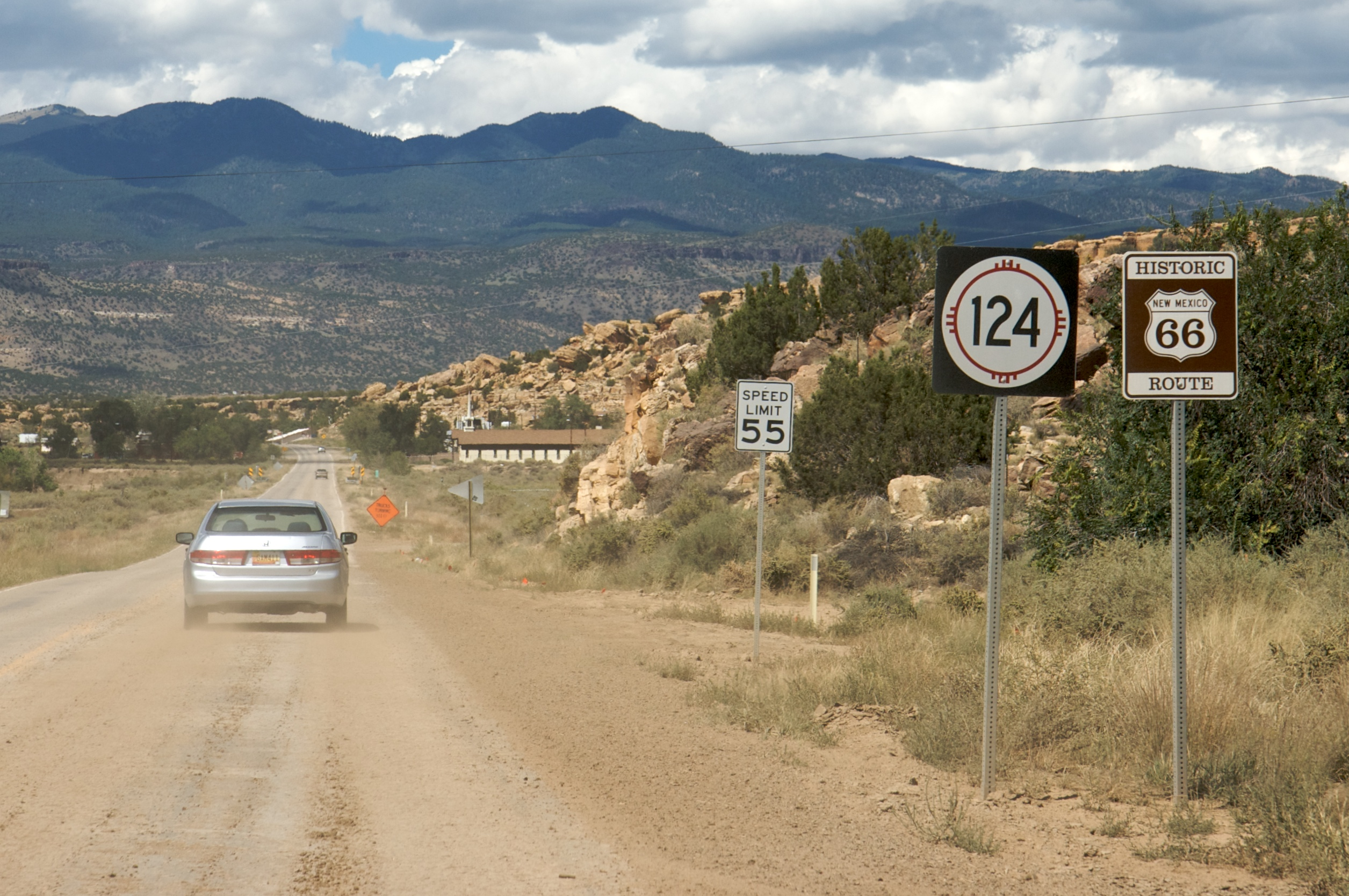 Westbound on NM 124 / historic US 66 in Cibola County west of I-40 exit 104. Mount Taylor in background.